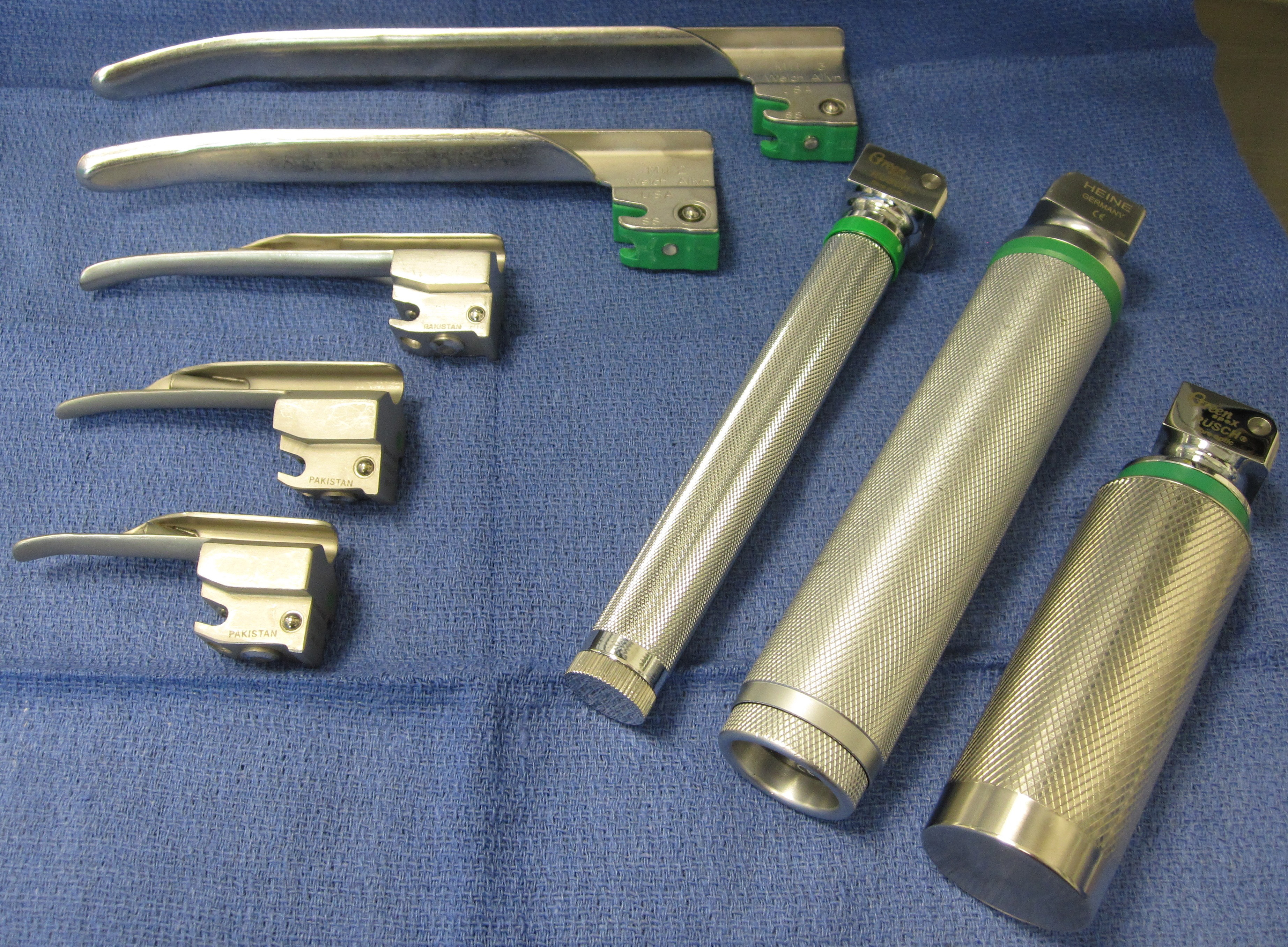 Laryngoscope handles with an assortment of Miller blades